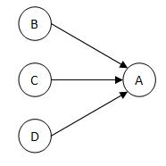 Simple 4 nodes graph 3 nodes link to one